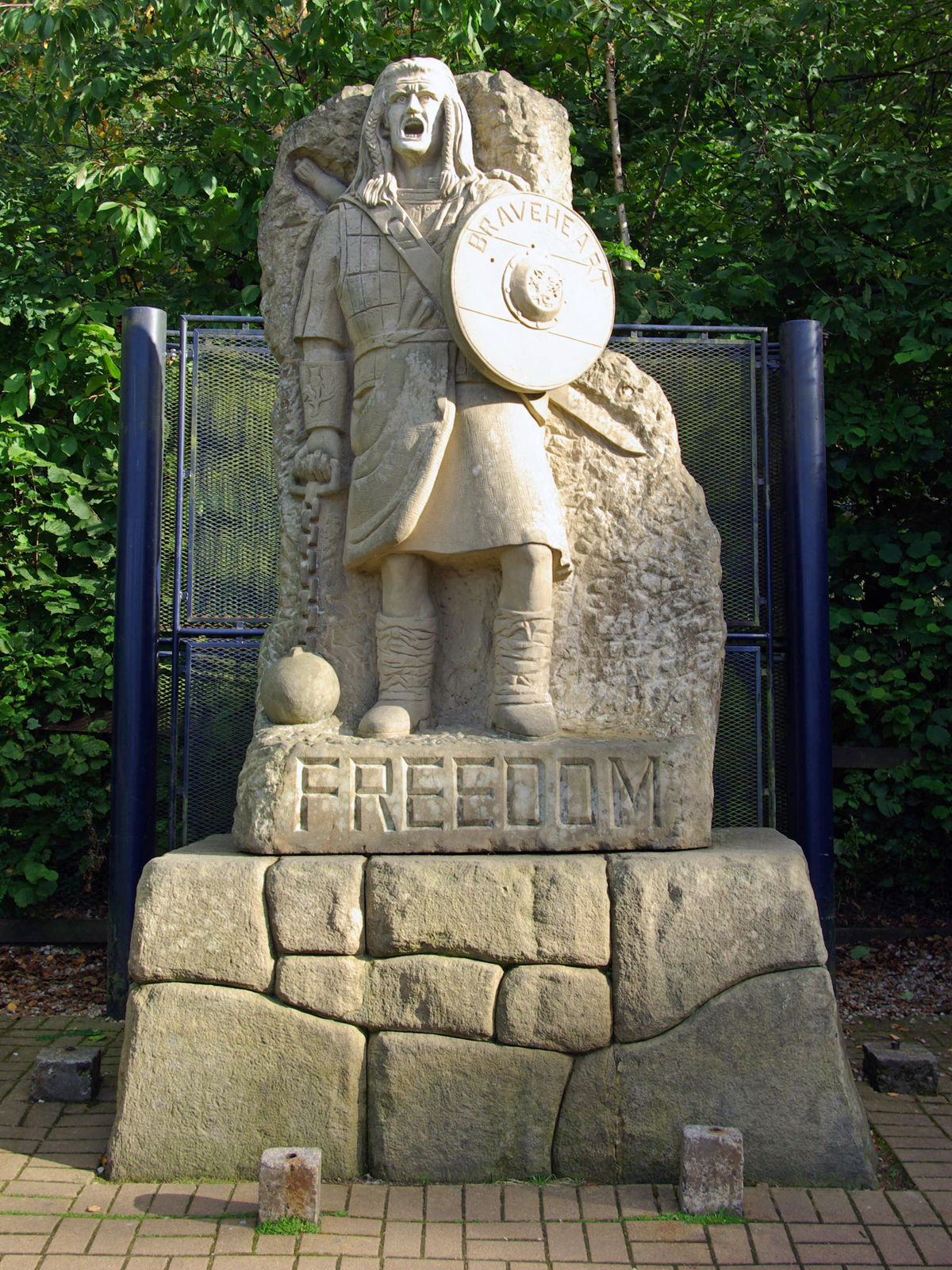 The Tom Church statue "Freedom".